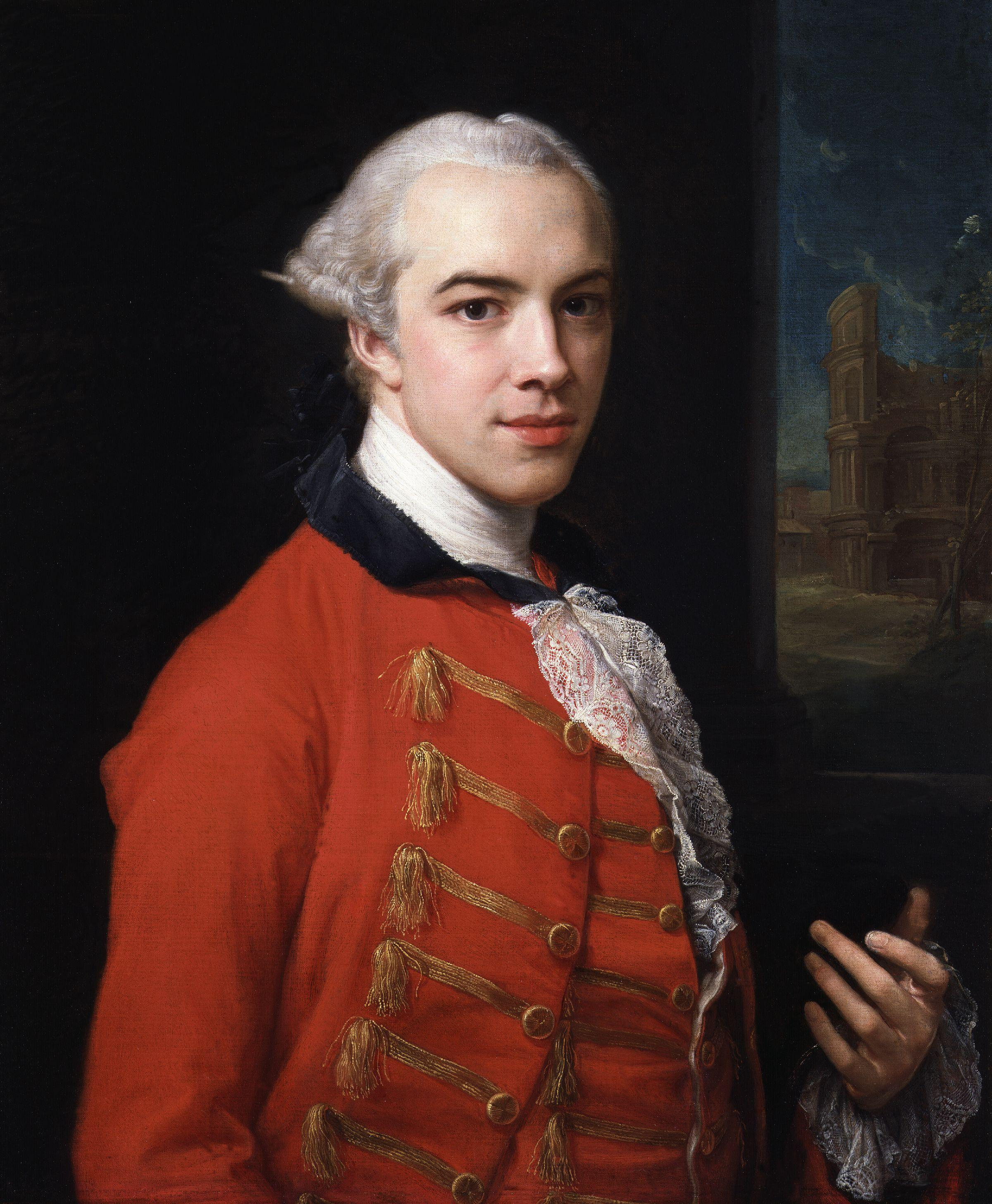 Philip Metcalfe, by Pompeo Batoni (died 1787), given to the National Portrait Gallery, London in 1923. All images in this batch have been confirmed as author died before 1939 according to the official death date listed by the NPG.